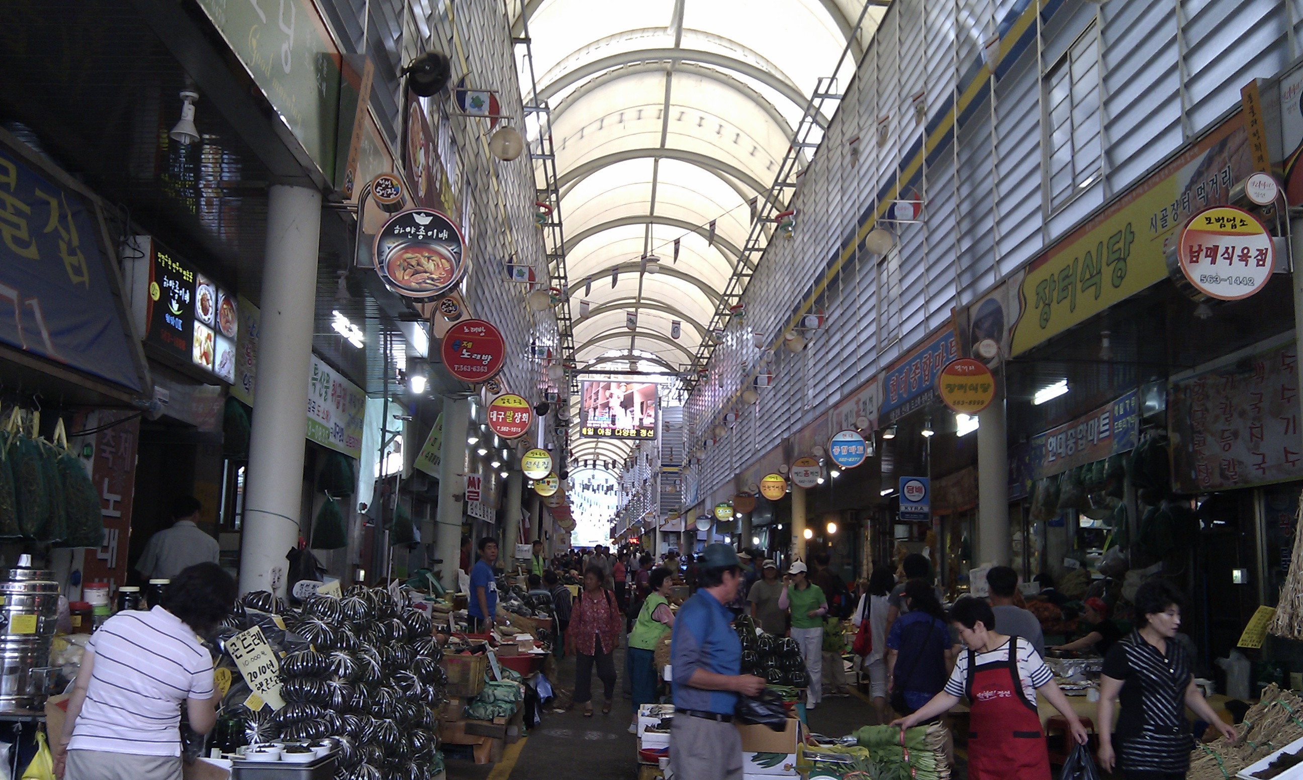 The market of Jeongseon